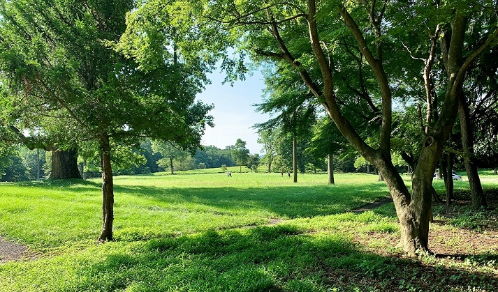 Jay Meadow